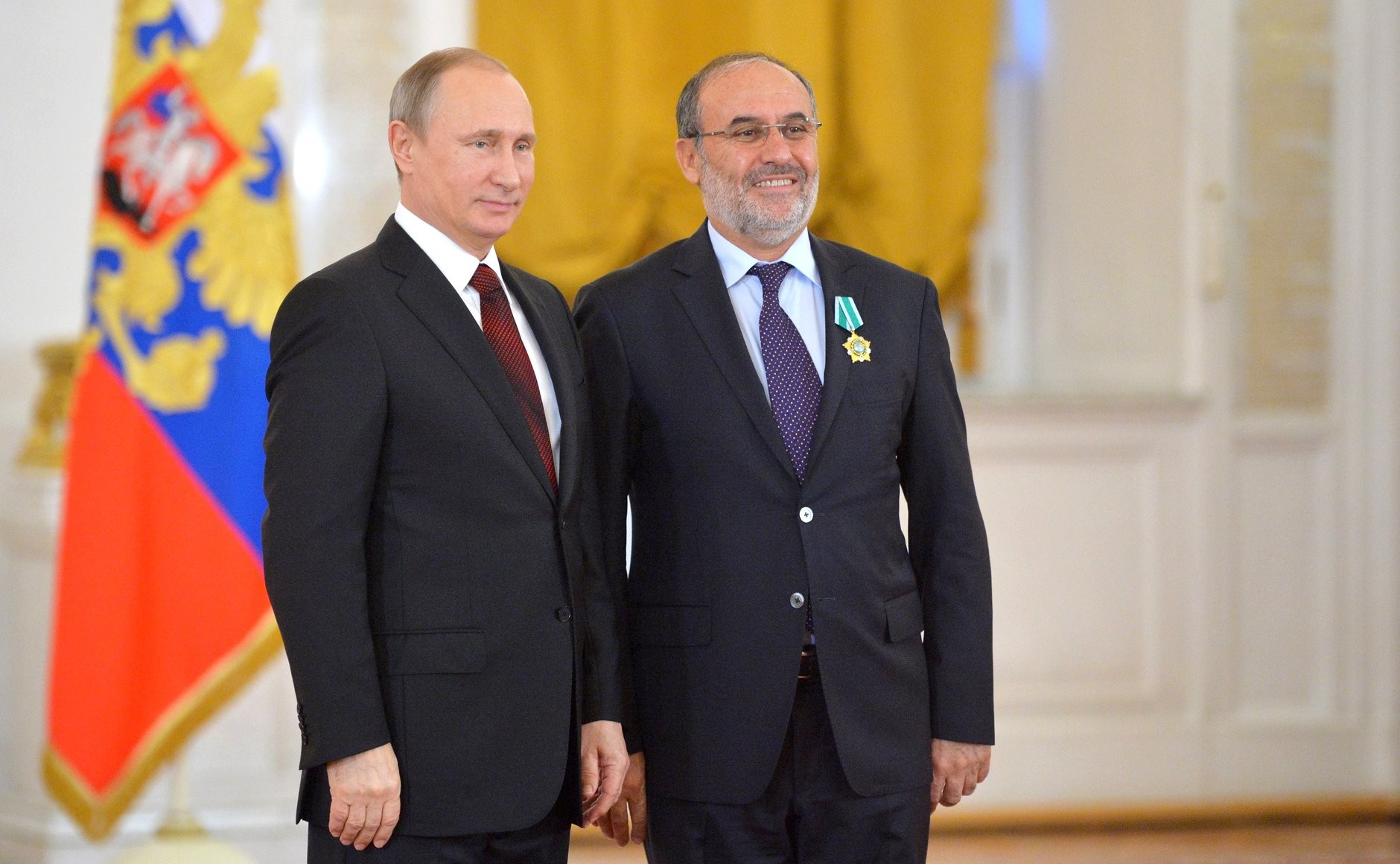 Presentation of Russian state decorations to foreign citizens. Salih Kapusuz, member of Turkey’s Grand National Assembly and head of the parliamentary group for friendship with the Russian Federation was awarded the Order of Friendship.